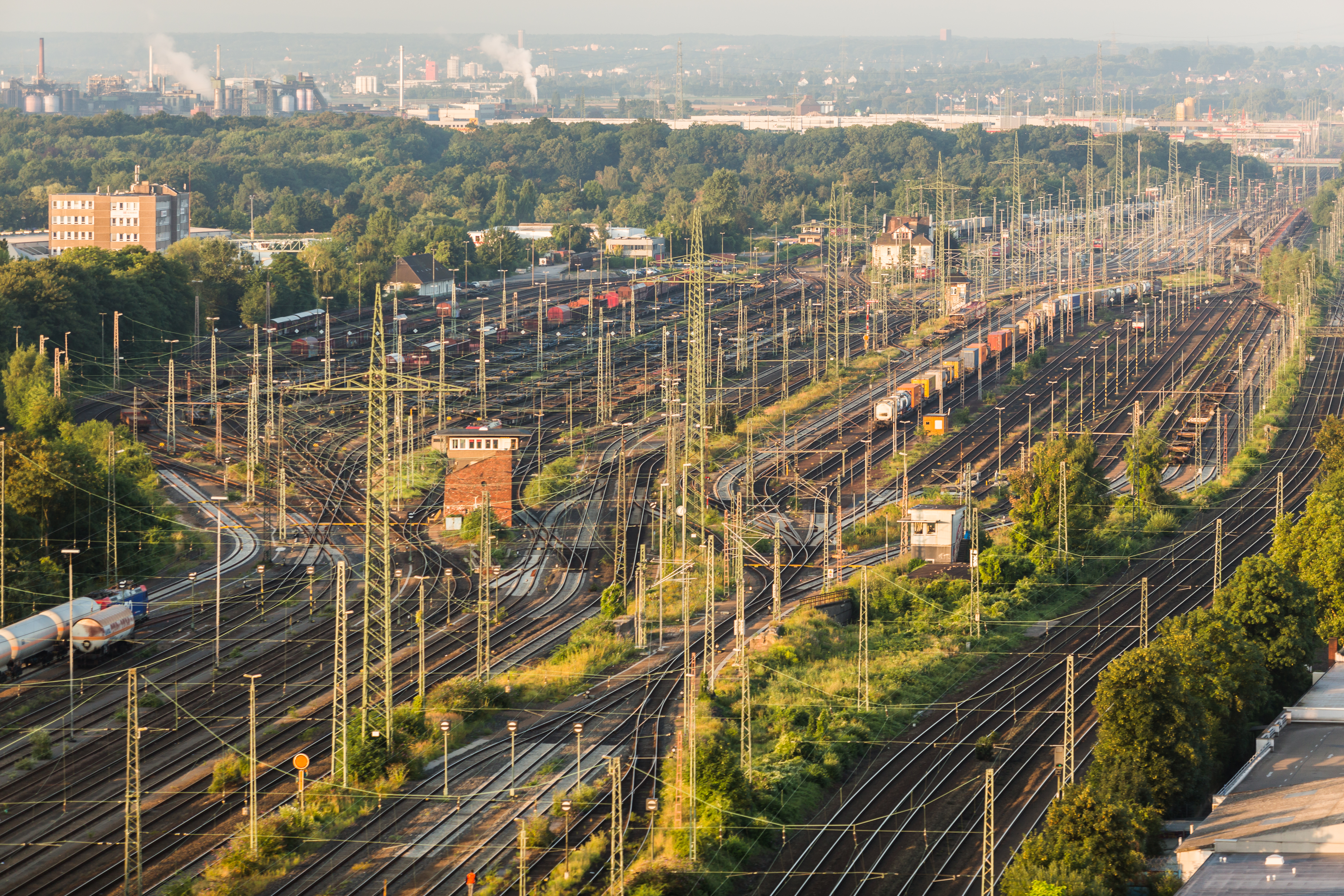 Hot air balloon trip across Cologne